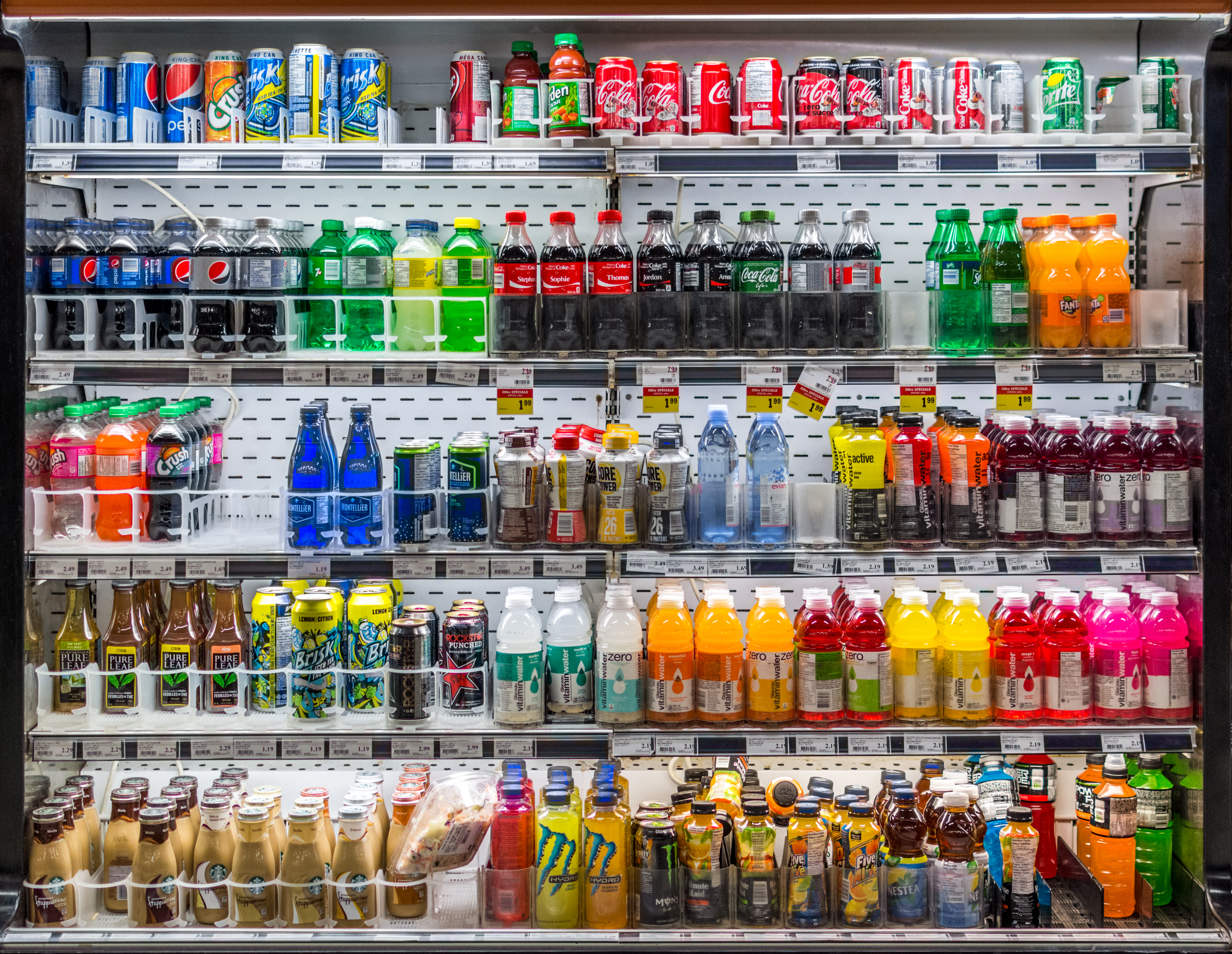 IGA store in Quebec, Limoilou